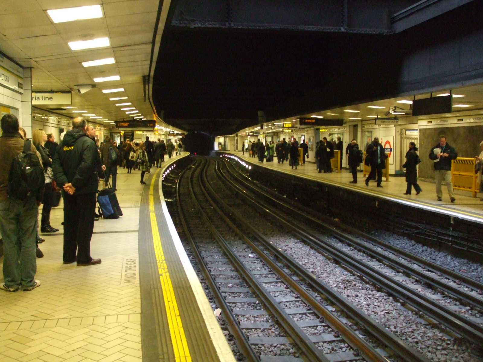 Victoria tube station Circle and District line platforms looking clockwise/westbound